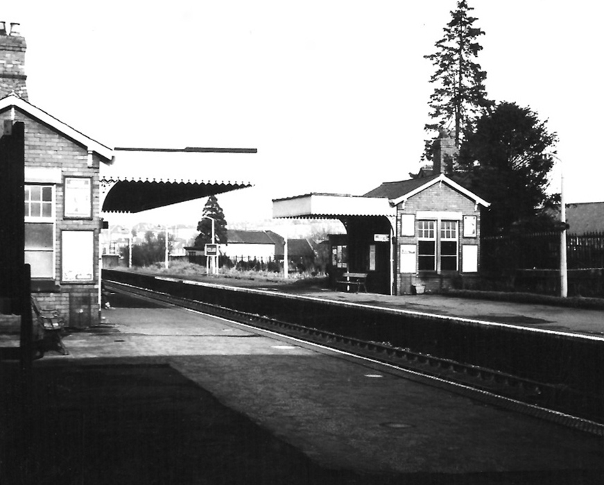 Redland railway station in 1964, view of the up platform on the left and down on the right.